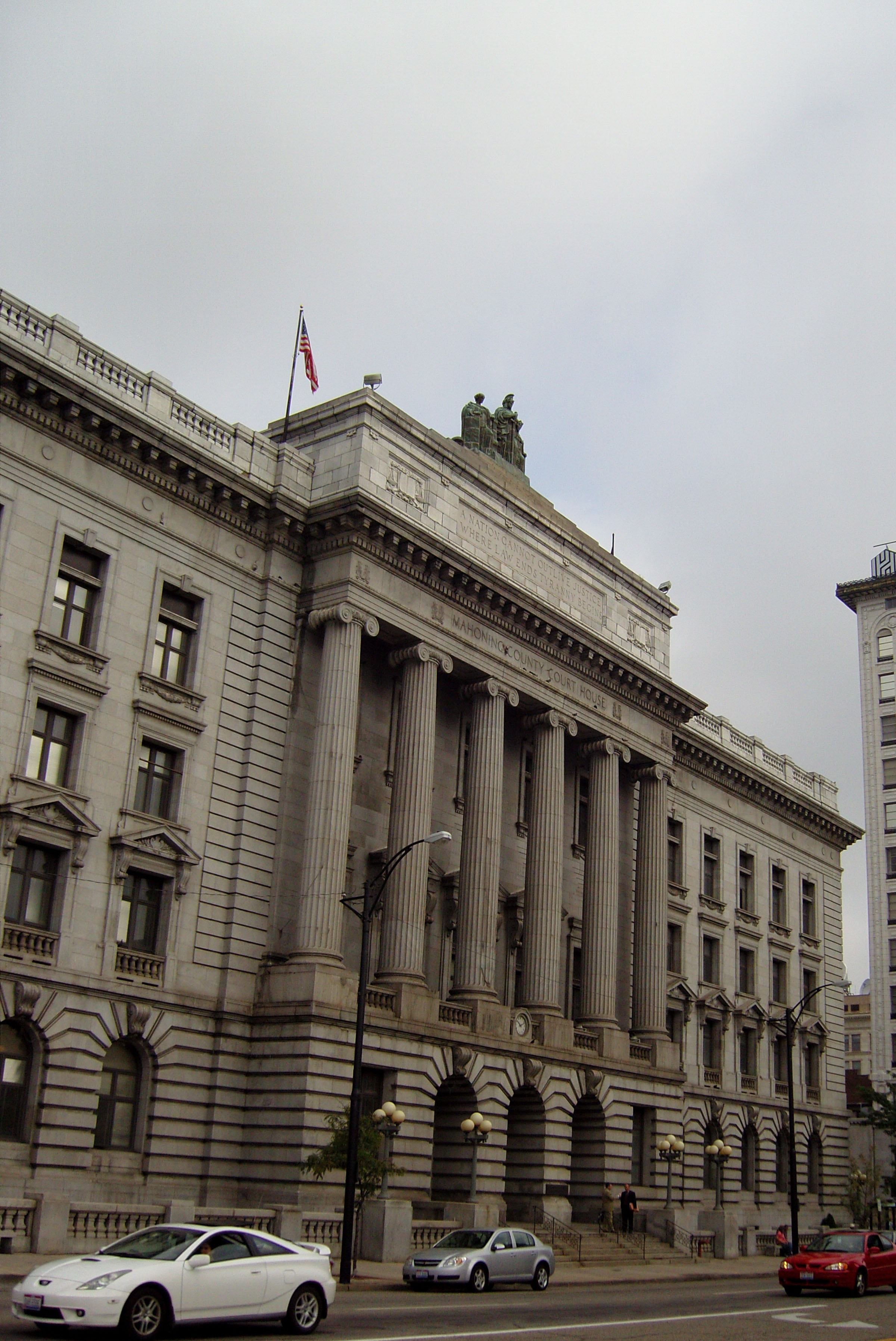 Mahoning County Courthouse, Youngstown, OH.